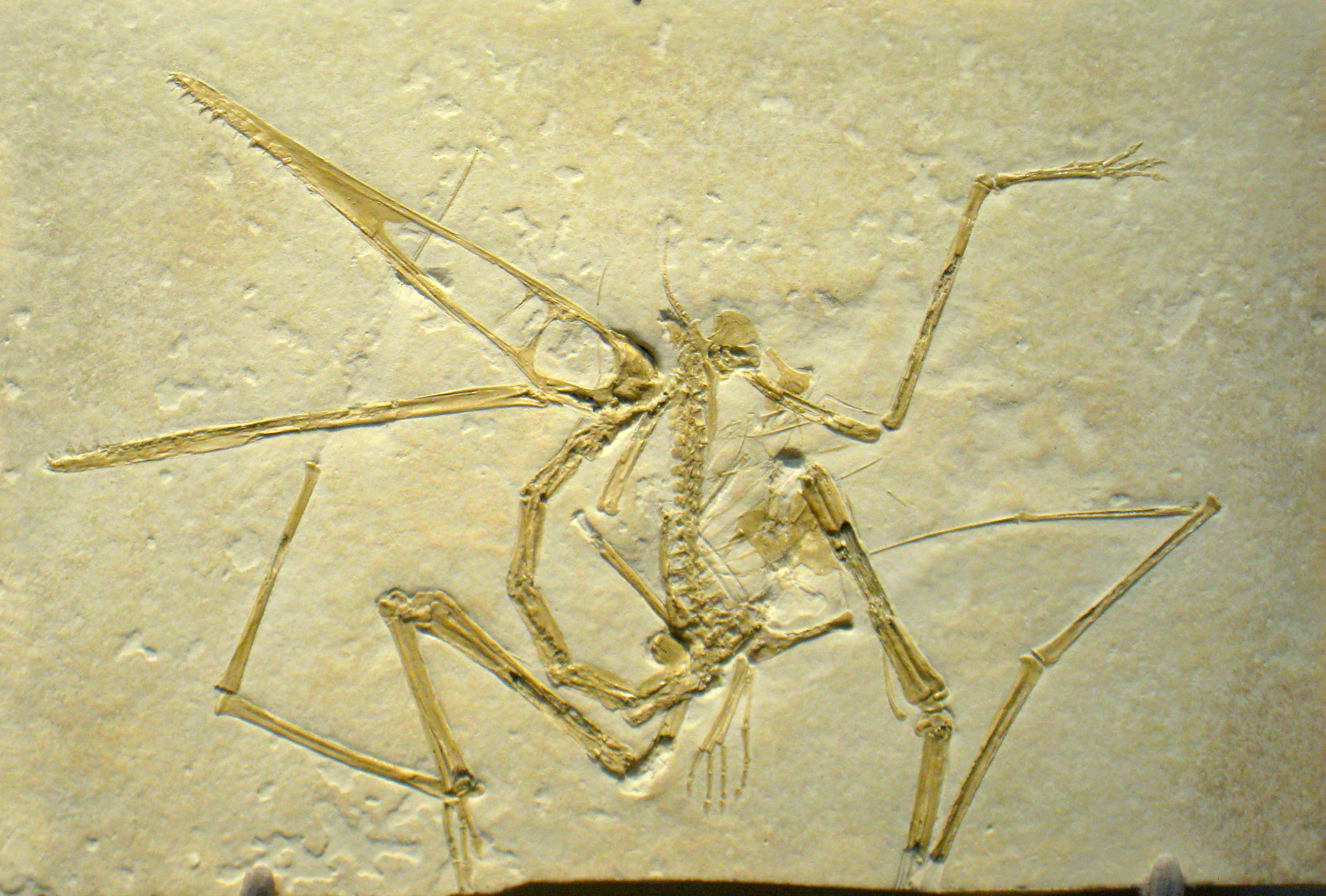 Pterodactylus antiquus, Carnegie Museum of Natural History, Pittsburgh, Pennsylvania, USA.